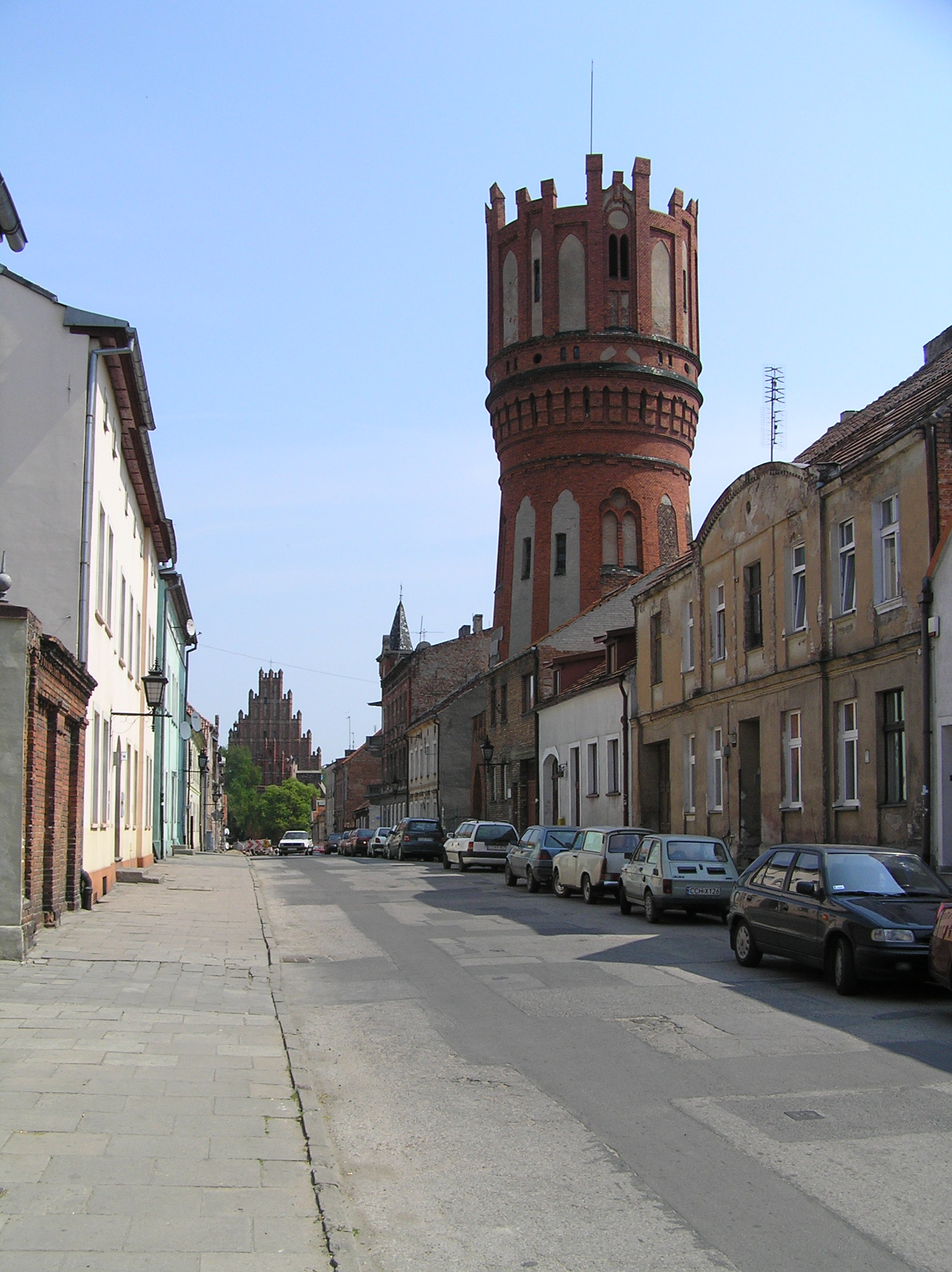 Chełmno, Dominikańska Street, water tower, in the background former Dominicans' church